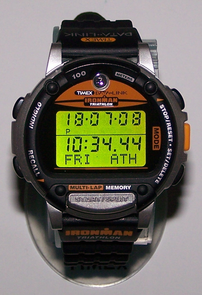 Please see filename